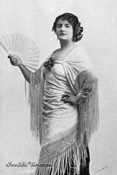 Publicity photograph of the Finnish opera singer Annikki Uimonen (1891–1936).